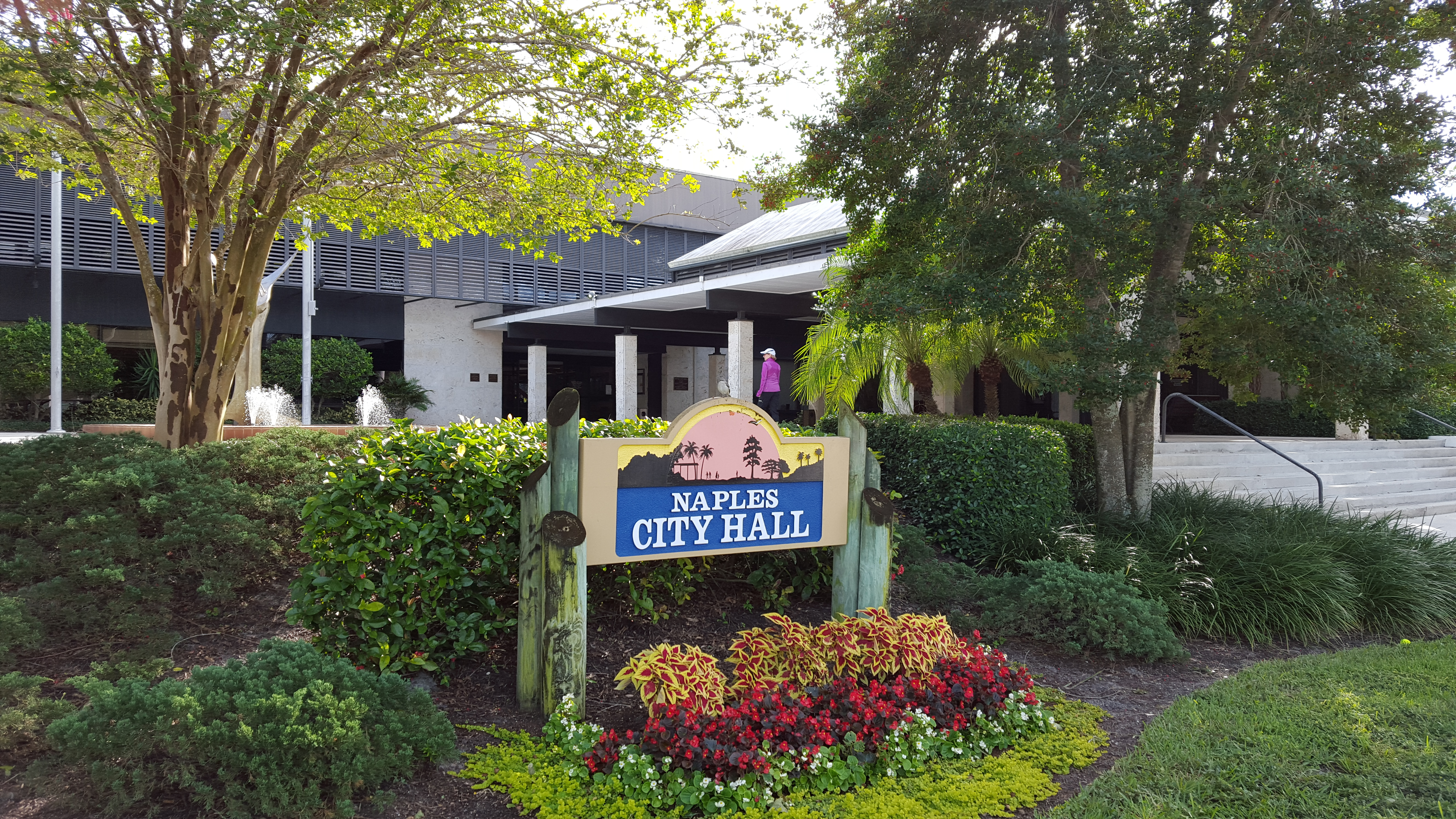 Naples Florida City Hall in 2016.